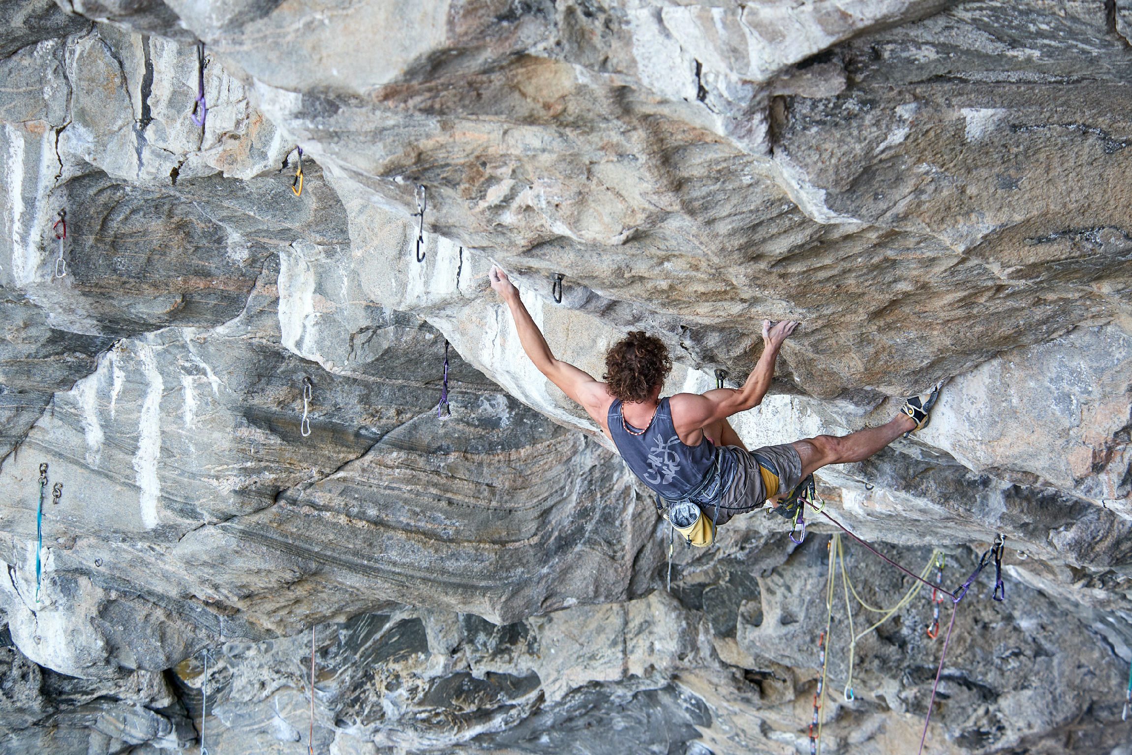 Adam Ondra climbing Silence, 9c. Norway, Flatanger, 2017